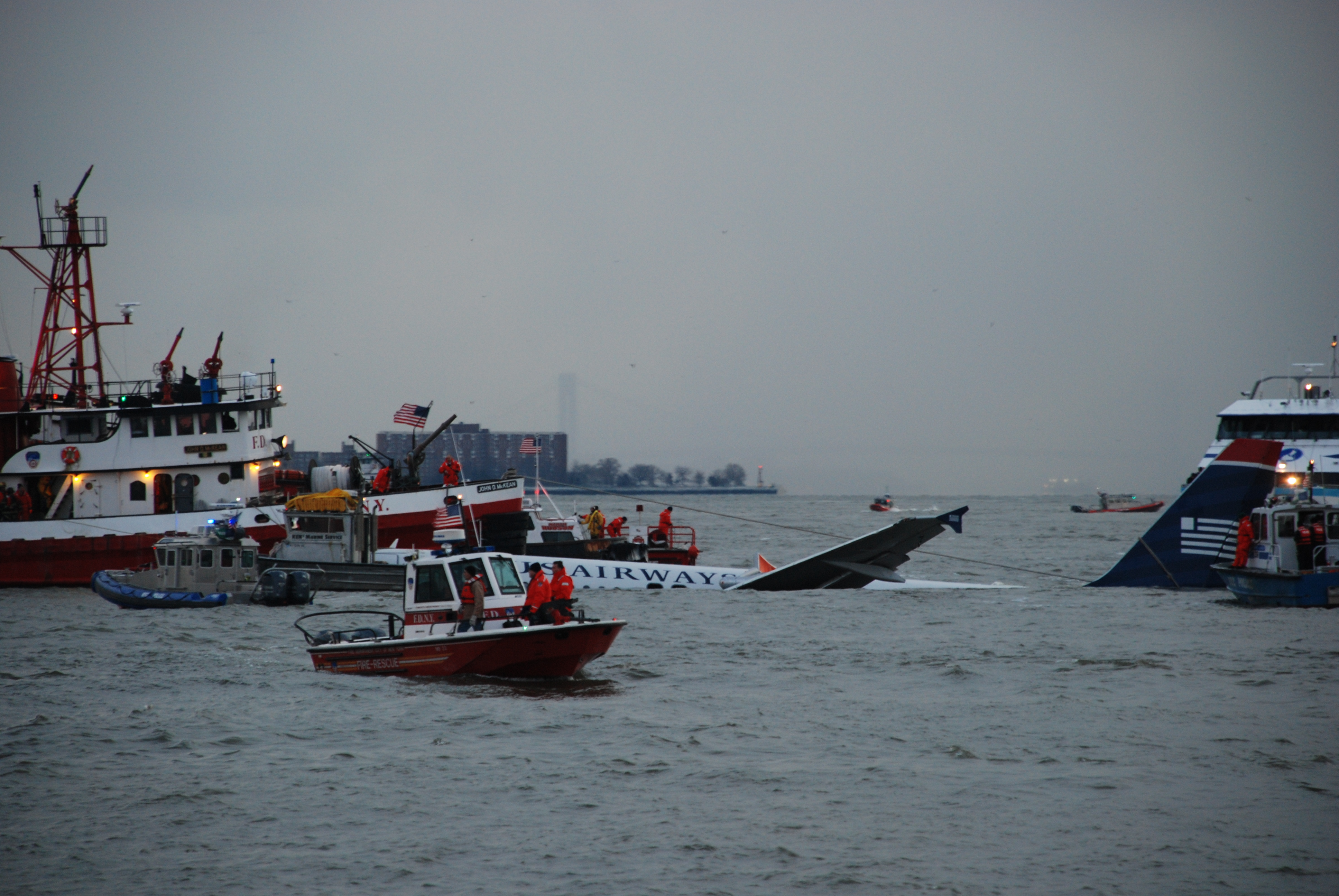 US Airways Flight 1549 crashed into the Hudson River Thursday, January 15 after leaving LaGuardia Airport on its way to Charlotte N.C. Joint rescue efforts by the Coast Guard, NYPD and nearby ferries and boats ensured that all passengers on the plane were taken to safety. The U.S. Army Corps of Engineers New York District sent boats to assist in response efforts.